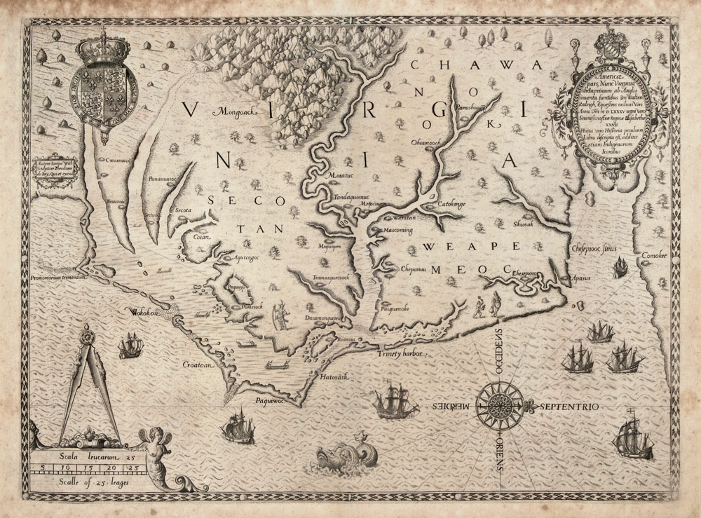 "The Carte of All the Coast of Virginia," engraving by Theodor de Bry based on John White's map of the coast of Virginia and North Carolina circa 1585-1586. de Bry's engraving was published in Thomas Hariot's "A Briefe and True Report of the New Found Land of Virginia," published in 1588 and in Vol. 1 of Theodore de Bry’s Great Voyages, printed in French, English and German. This was the first printed map with a high degree of detail and accuracy for any part of the United States. It was the first separate map of Virginia. It was based on a manuscript map by John White from 1585, a copy of which is in the British Museum, revised for additional names and coastal detail gained from Roanoke Colony travels in 1587 and 1588. Quinn notes that White’s original drawing is accepted as the major contemporary authority on the configuration of the coastline in the late sixteenth century. The map was the same in all four editions of Harriot’s work. John White, one of the company sent by Sir Walter Raleigh to establish an English colony on Roanoke Island in 1585, went at least twice to the Carolina coast in the 1580s. There he produced a series of drawings of the everyday life of the Native American populations. White also compiled this map of the North Carolina coast from Cape Lookout to the mouth of the Chesapeake Bay, based on the British explorations of 1585-86, which de Bry then engraved and published in 1590.